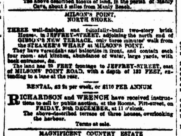 Jeffrey Street - Milson's Point, North Shore, Three terraces for sale. Newspaper advert